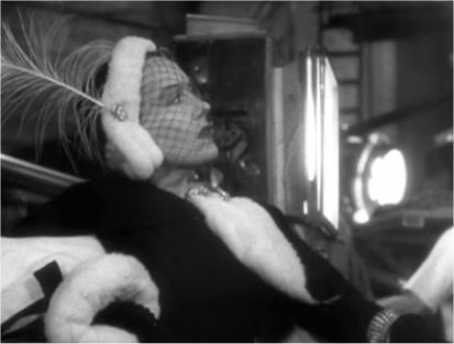 Screenshot taken by me (Icea) from the trailer to the movie Sunset Blvd.